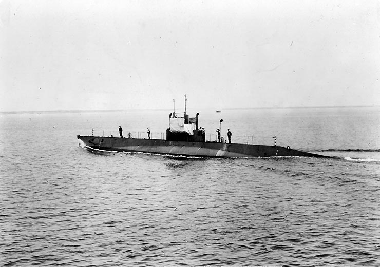 USS L-3 (Submarine # 42) running trials off Provincetown, Massachusetts, in September 1915. Original caption: “Photo # NH 51126 USS L-3 running trials off Provincetown, Massachusetts” — removed caption